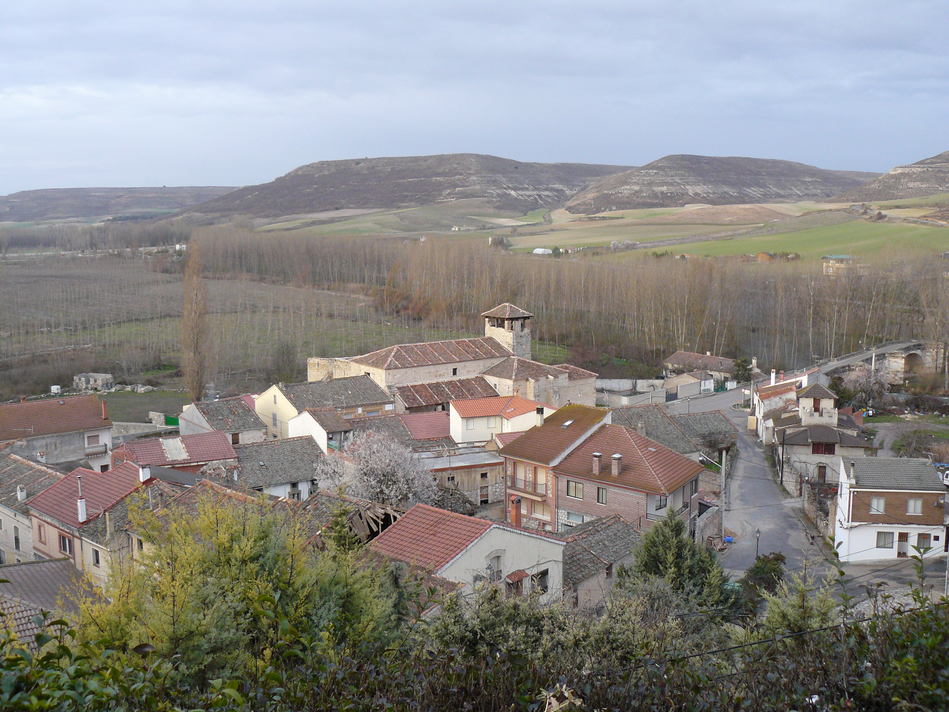 View of the church of Santa María la Mayor Fuentidueña (Segovia, Spain), from the main square.